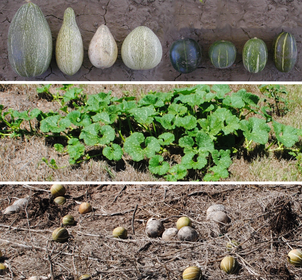 Cucurbita maxima subsp. andreana (wild zapallito, bitter zapallito, zapallito amargo). Up: 8 types of fruits of the same wild subspecies. Middle: 1 wild plant in summer. Bottom: At the end of the season, dead plant and fruits (in this case green and striped), also noticed the old fruits from the previous season in brown.